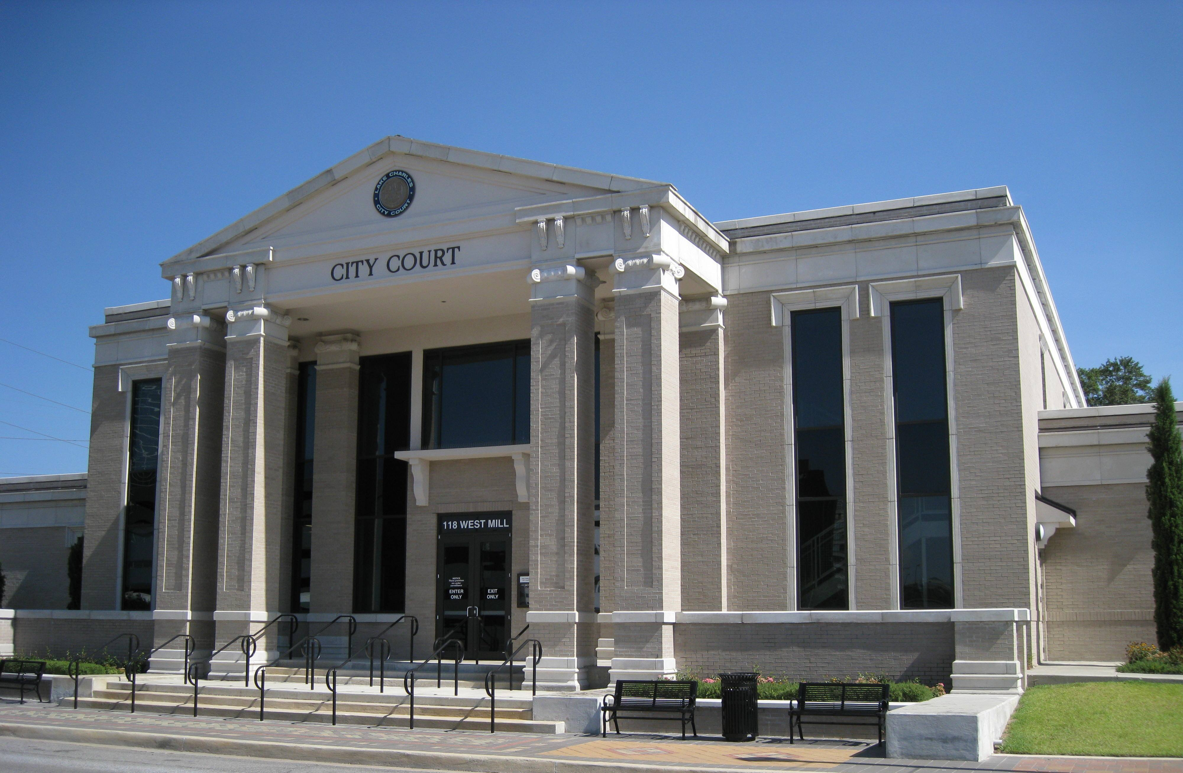 Lake Charles City Court